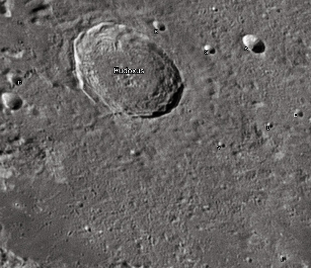 Eudoxus lunar crater as seen from Earth with satellite craters labeled